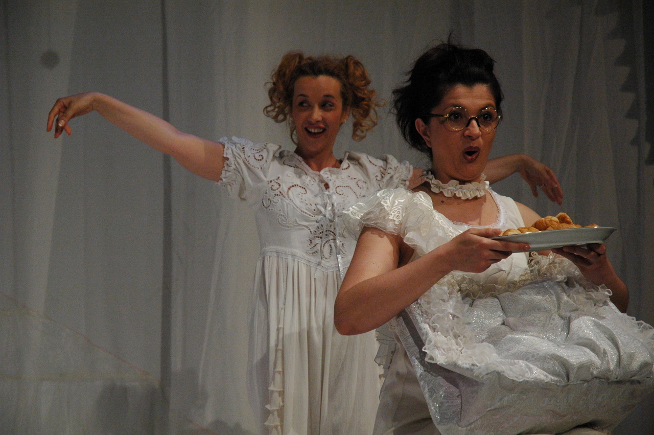 "Pokondirena tikva", A Comical Opera in Three Parts by Mihovil Logar based on the comedy with the same name by Jovan Sterija Popović; Danijela Jovanović, soprano and Violeta Srećković mezzo-soprano, SNT, Novi Sad, 2005/2006. Srpski (latinica): "Pokondirena tikva", komična opera u tri čina Mihovila Logara po istoimenom komadu Jovana Sterije Popovića; Danijela Jovanović, sopran i Violeta Srećković, mecosopran, SNP, Novi Sad, 2005/2006. Српски (ћирилица): "Покондирена тиква", комична опера у три чина Миховила Логара по истоименом комаду Јована Стерије Поповића; Виолета Срећковић, сопран и Марина Павловић Бараћ, мецосопран, СНП, Нови Сад, 2005/2006.